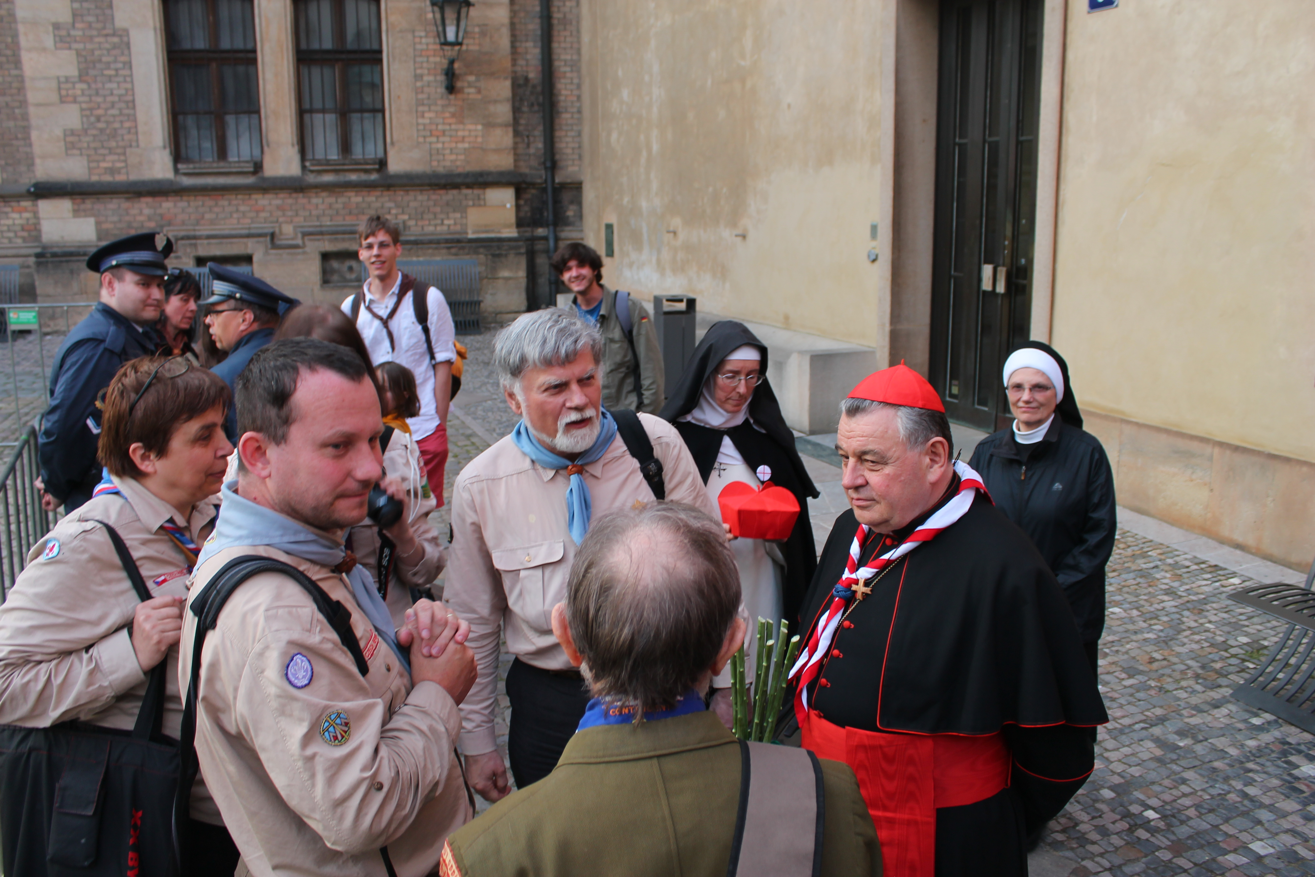 Vojtěch Dabrowski, Jiří Edy Zajíc, Dominik Duka (from the left) during conversation after holy mass on the feast of St. George – patron of scouts in the Basilica of St. George at the Prague Castle, Czech Republic.